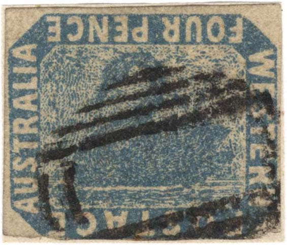 The 4d "Inverted frame" error of Western Australia, 1854. This example appeared in the Gartner sale, 1994. "The 4d Inverted Frames of Western Australia, 1855" in International Philatelic Exhibition, Washington 2006.